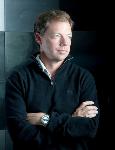 A portrait of Christopher Michel.